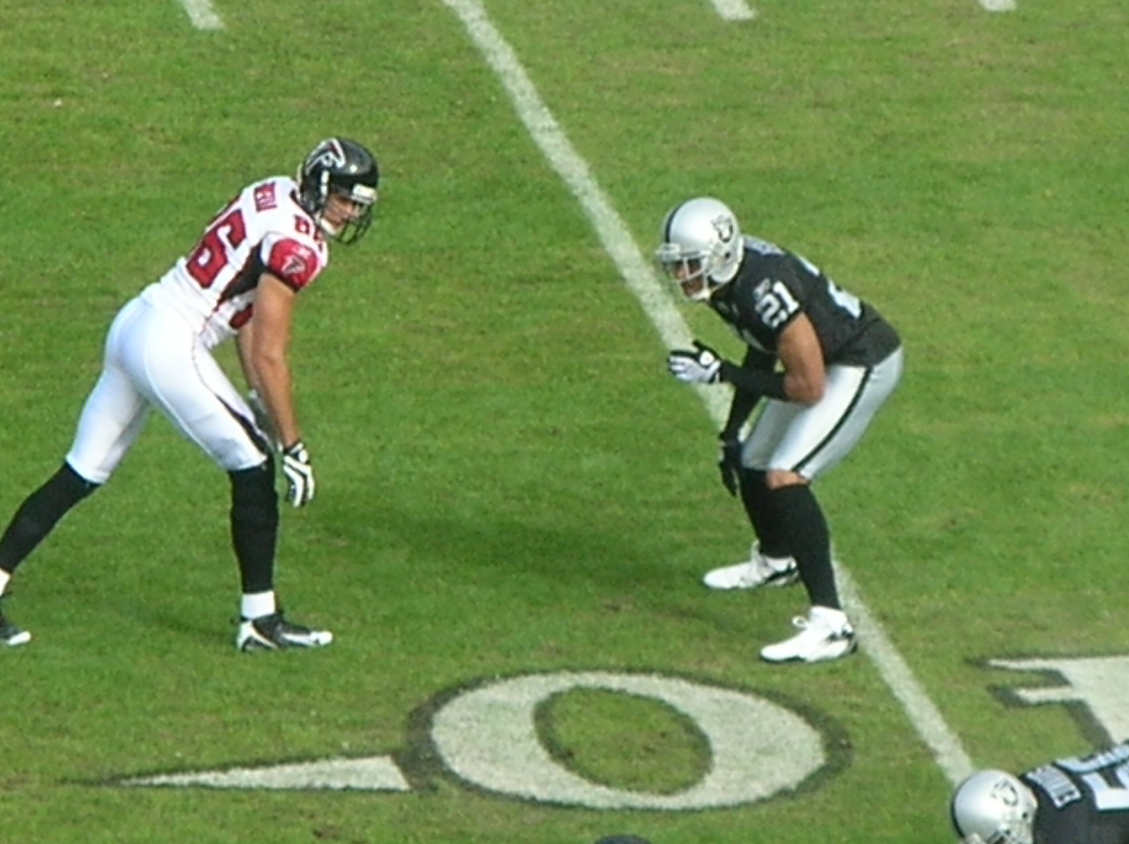 Oakland Raiders cornerback Nnamdi Asomugha (#21) covers Atlanta Falcons wide receiver Brian Finneran at a home game against Atlanta. The Falcons won 24-0.